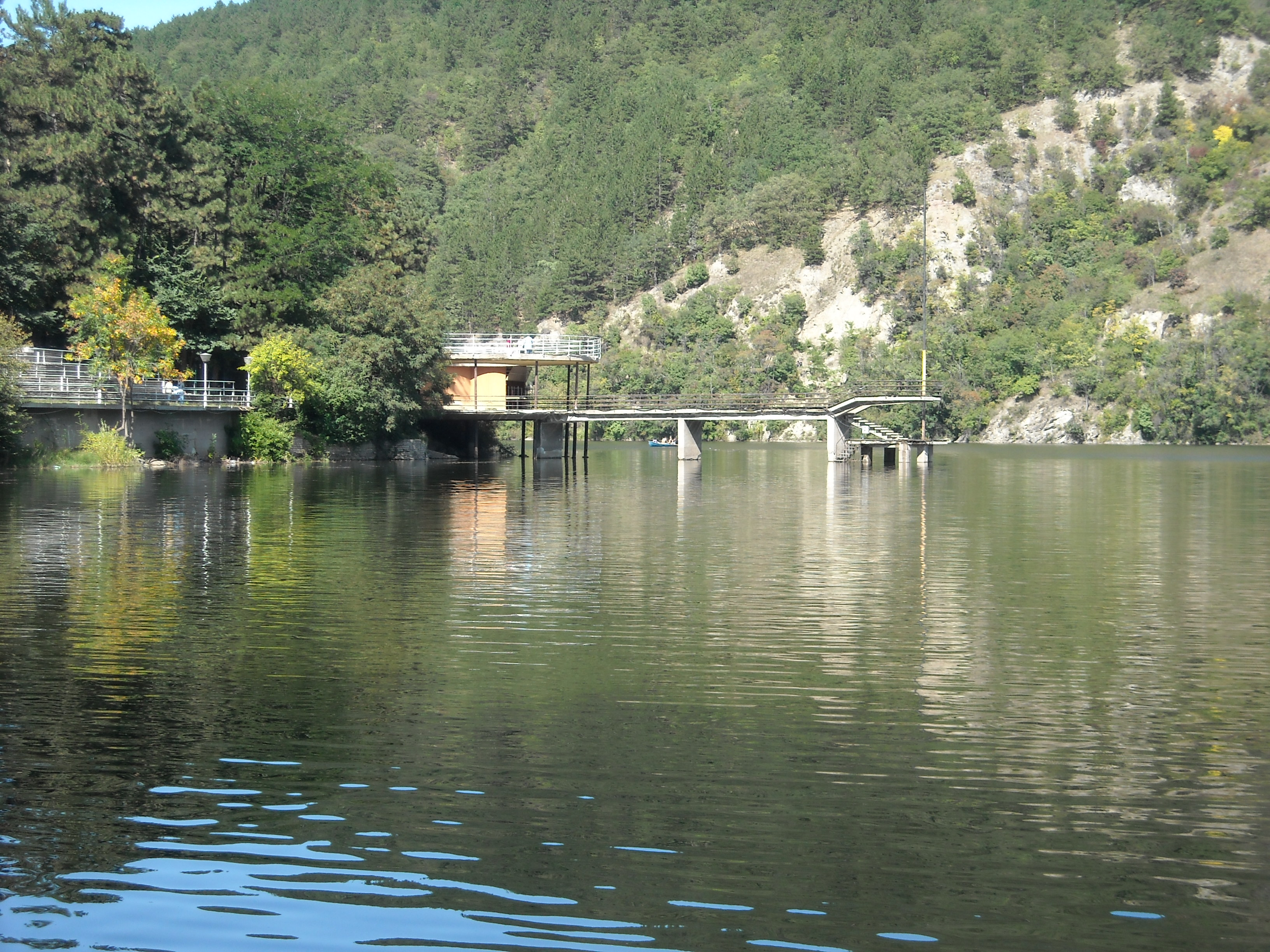 Bridge in the Pancharevo Lake, Bulgaria